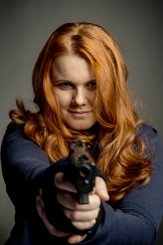 Aneta Jadowska, a polish fantasy writer